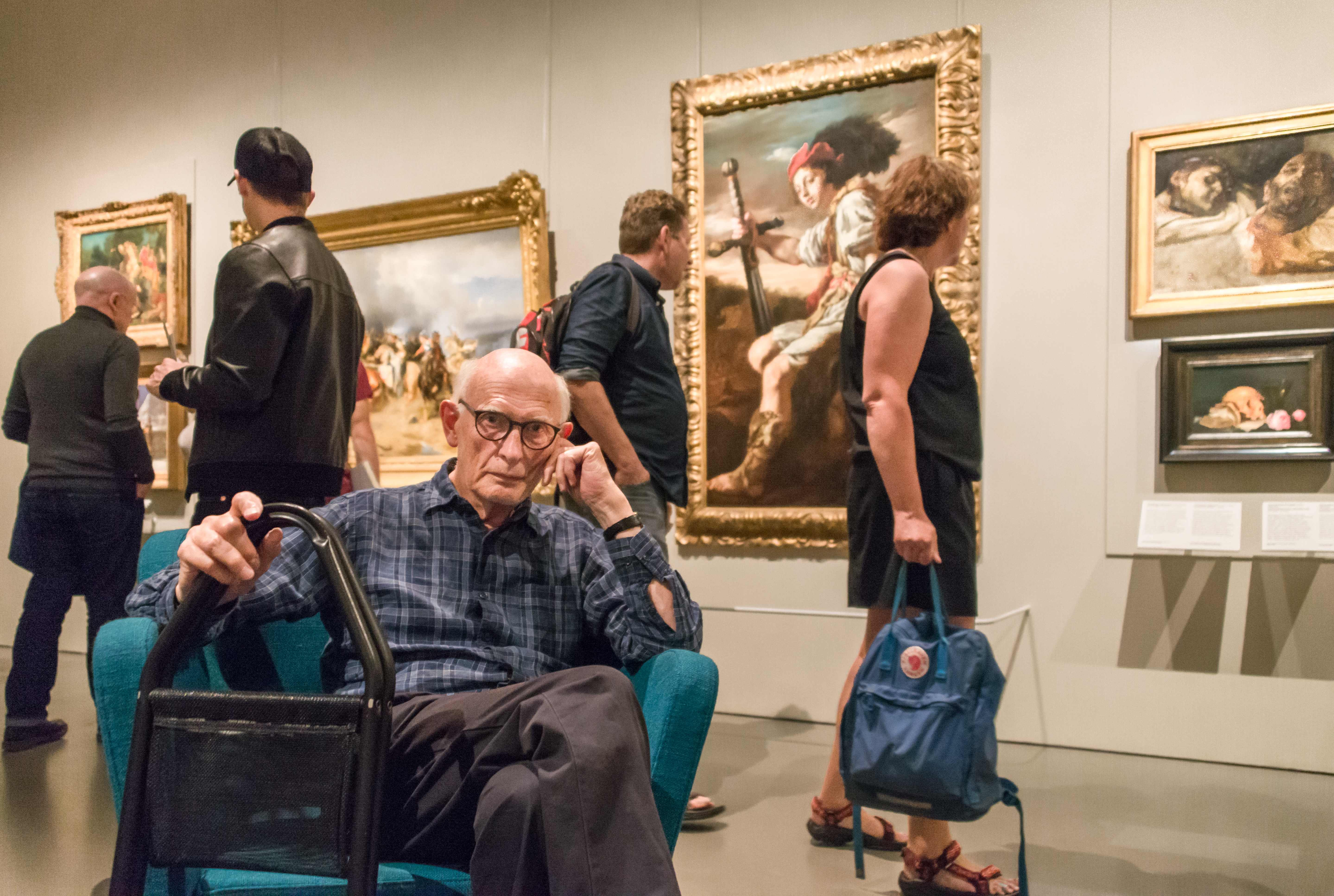 P.C. Jersild at the exhibition "100 fantastic paintings" at the Academy of Fine Arts in Stockholm on August 30, 2015.